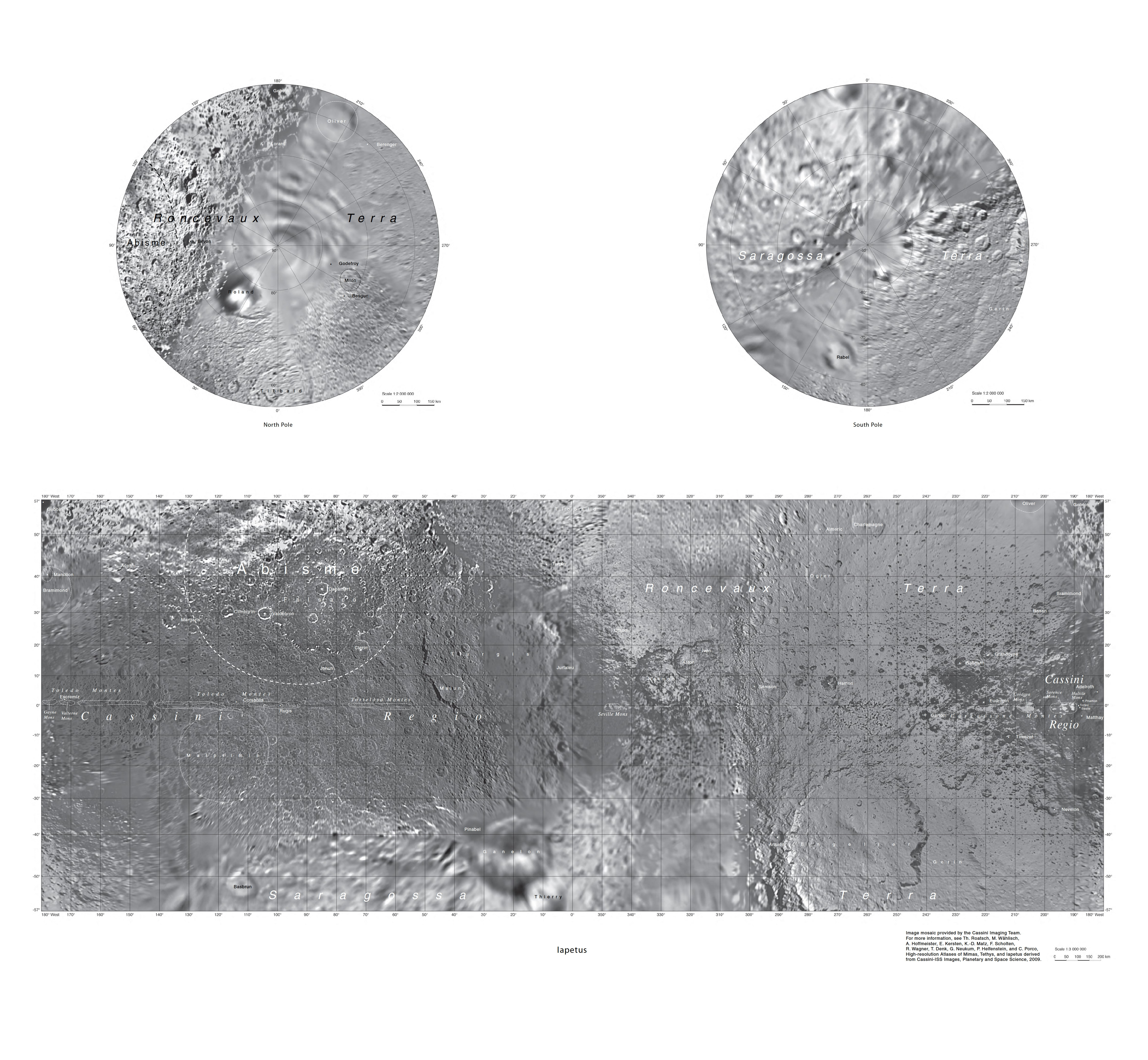 Map of Saturn's moon Iapetus. Scale 1: 3,000,000